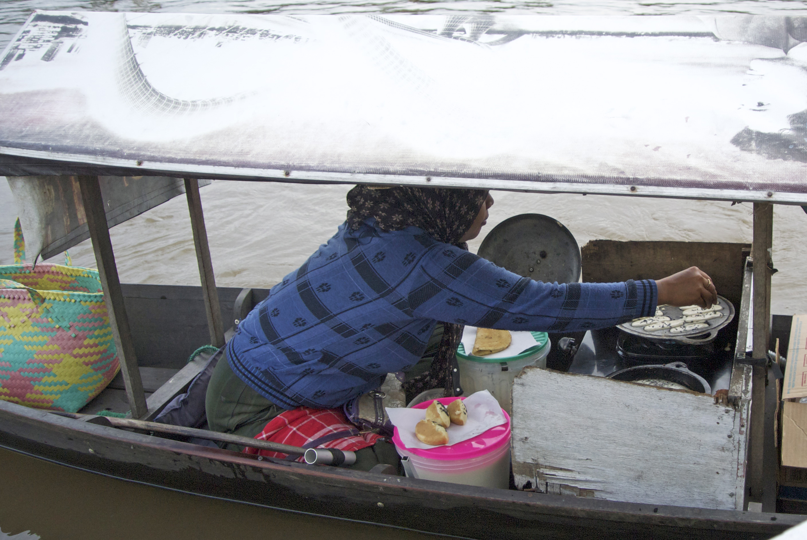 Lok Baintan Floating Market is located in Banjar Regency, South Kalimantan, less than an hour from central Banjarmasin by klotok (traditional boat).